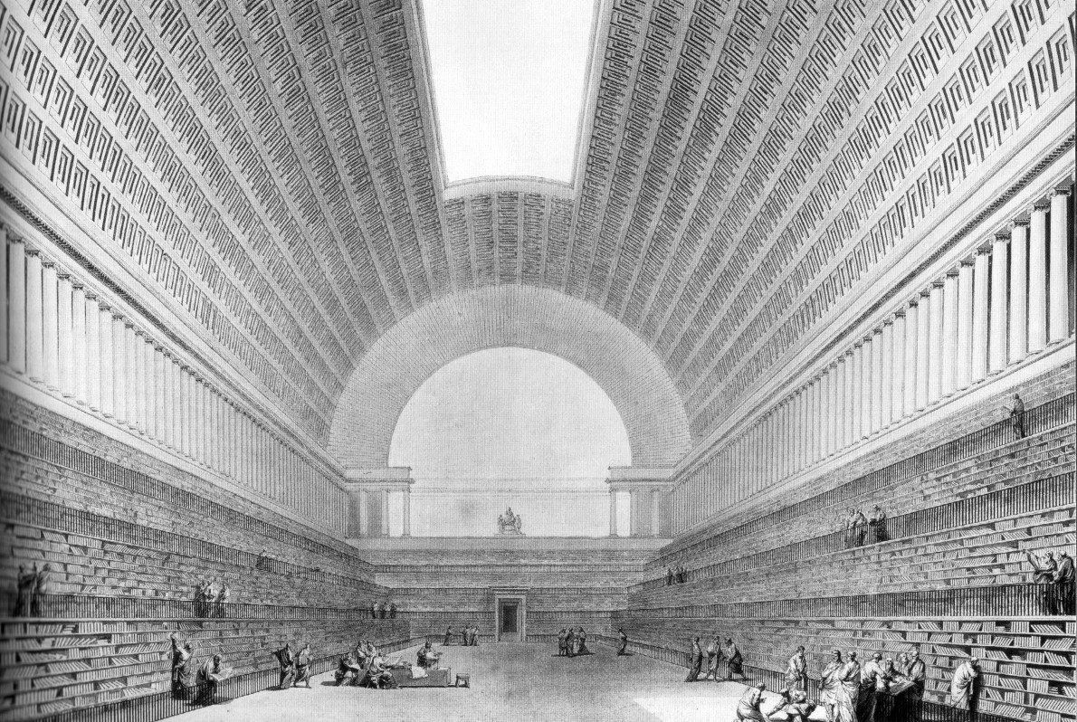 Étienne-Louis Boullée: Projekt for the National Library in Paris, France.